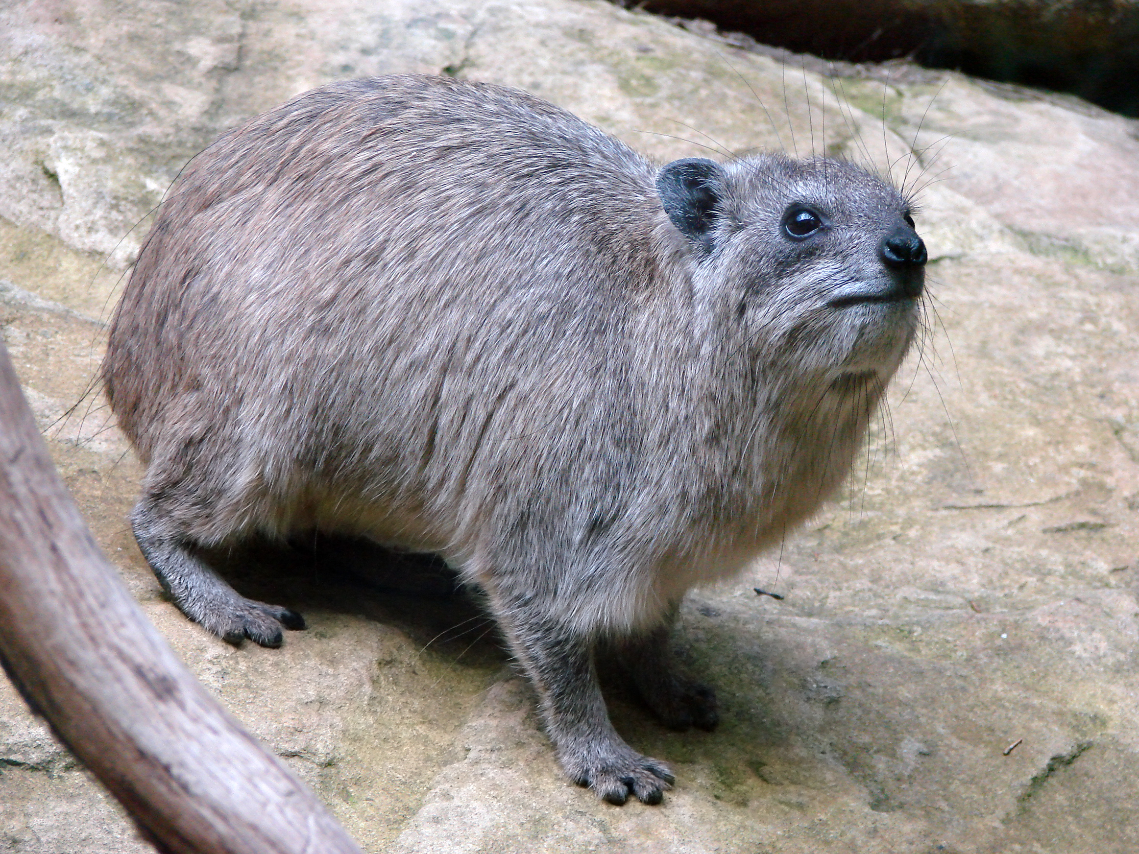 Rock hyrax / Cape Hyrax (Procavia capensis ), zoo of Amnéville, France.